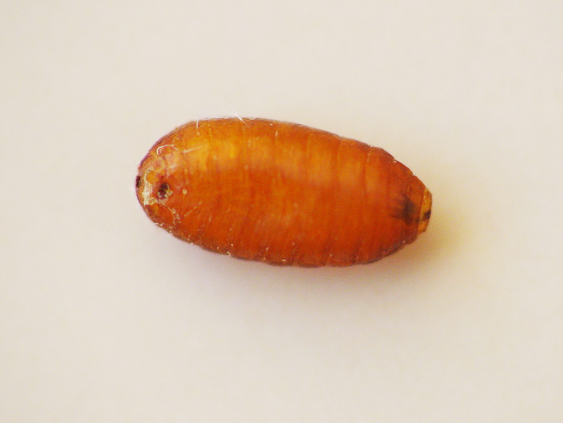 Ceratitis Capitata - pupae Medfly pupae